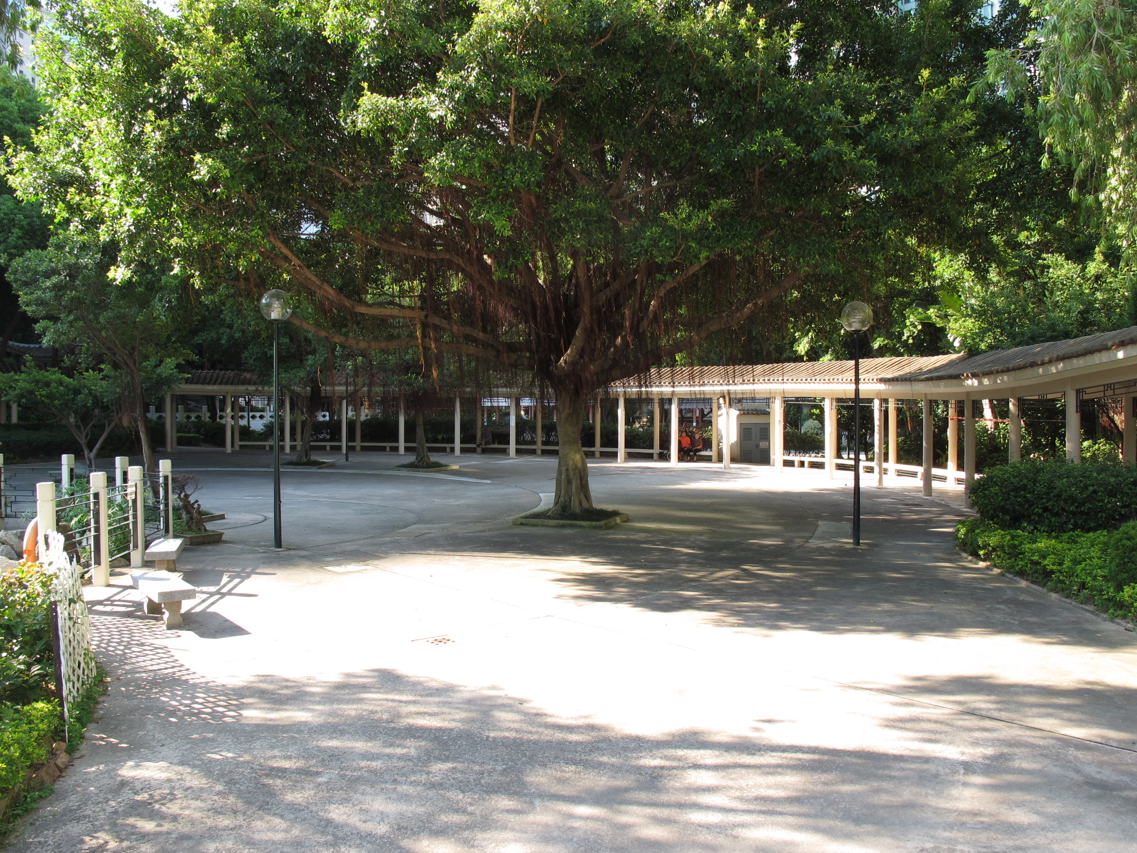 Hutchison Park Open Area